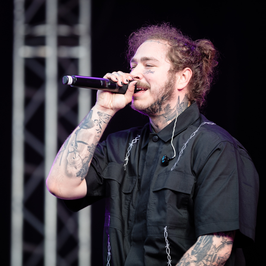 Post Malone at the main stage at Stavernfestivalen. The concert took place on 14. July 2018 in Stavern. Lineup:Post Malone (rap)